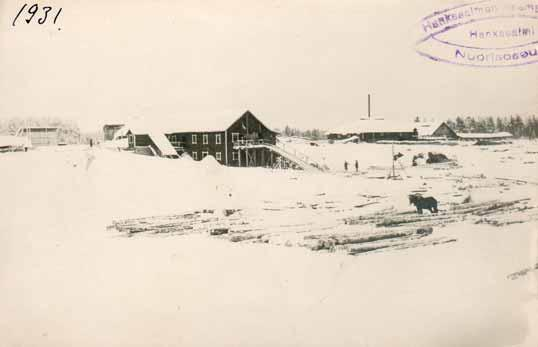 Hankasalmi sawmill in 1920s